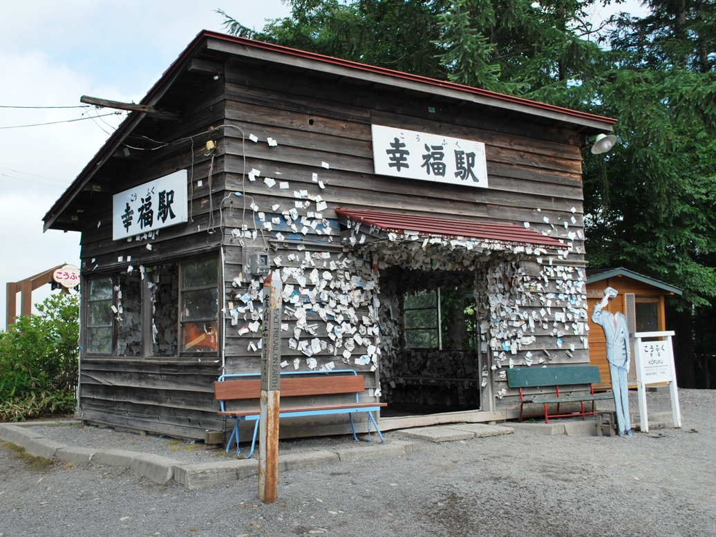 Koufuku-station mark in abolished Hiroo line in japan